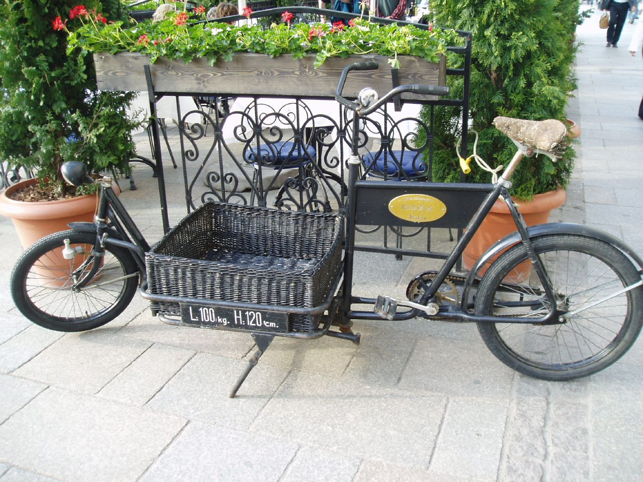 Cargo bicycle parked outside restaurant in the Main Square of Krakow, Poland.